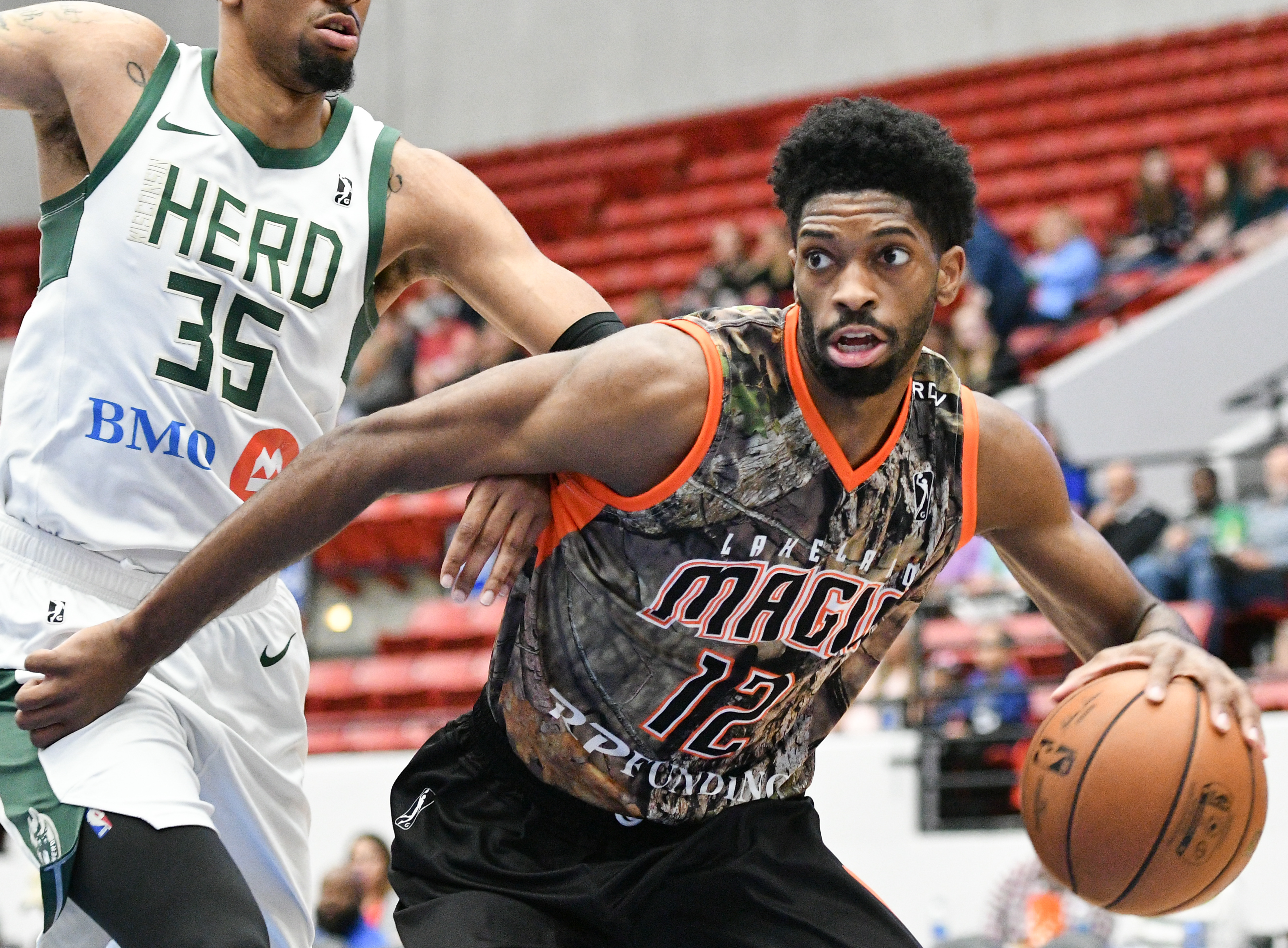 Lakeland Magic v Wisconsin Herd. RP Funding Center. Lakeland, Fla. Jan. 6, 2019. (Photo by Tom Hagerty.)